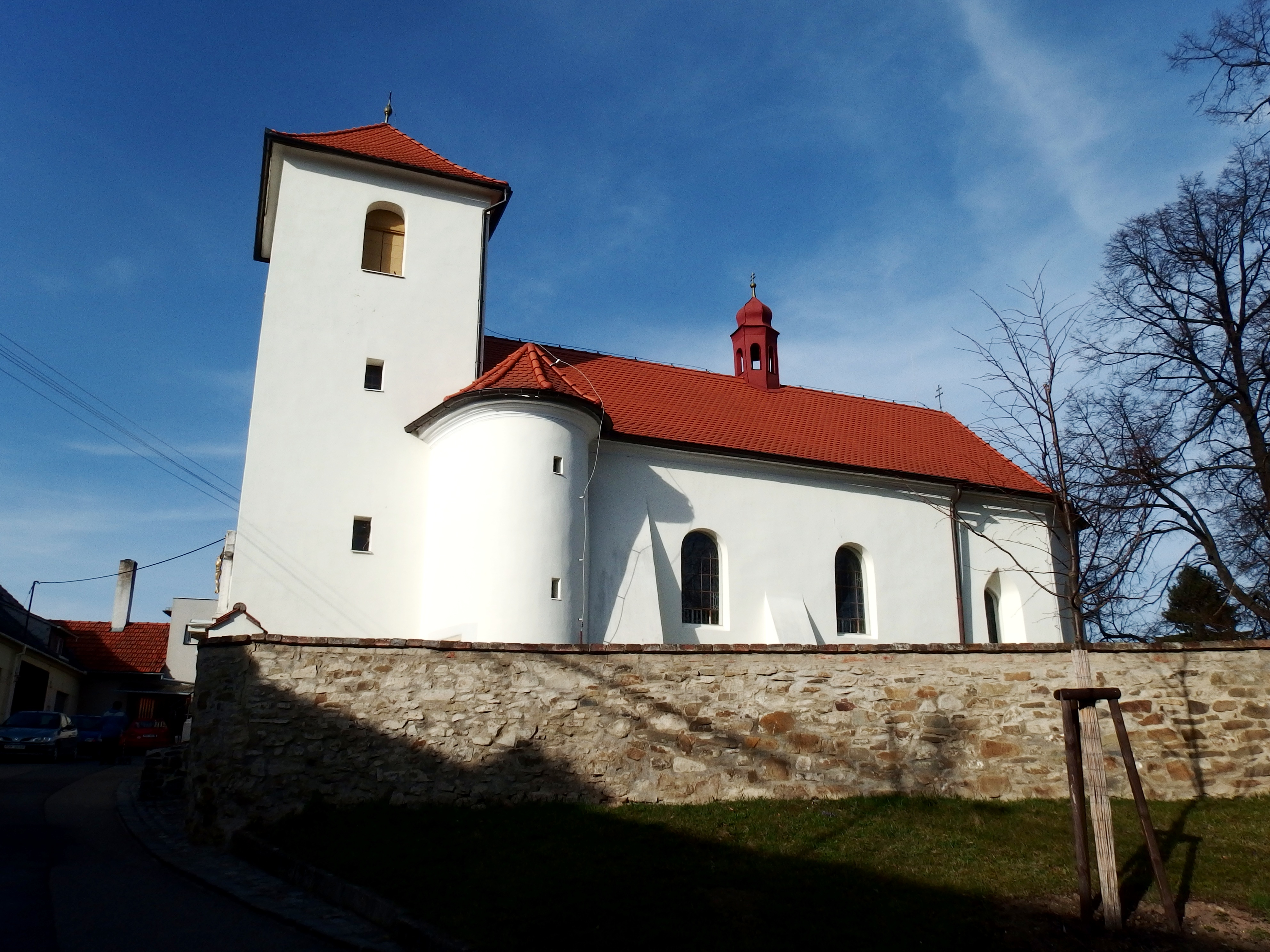 Vranovice-Kelčice, Prostějov District, Czech Republic, part Vranovice.